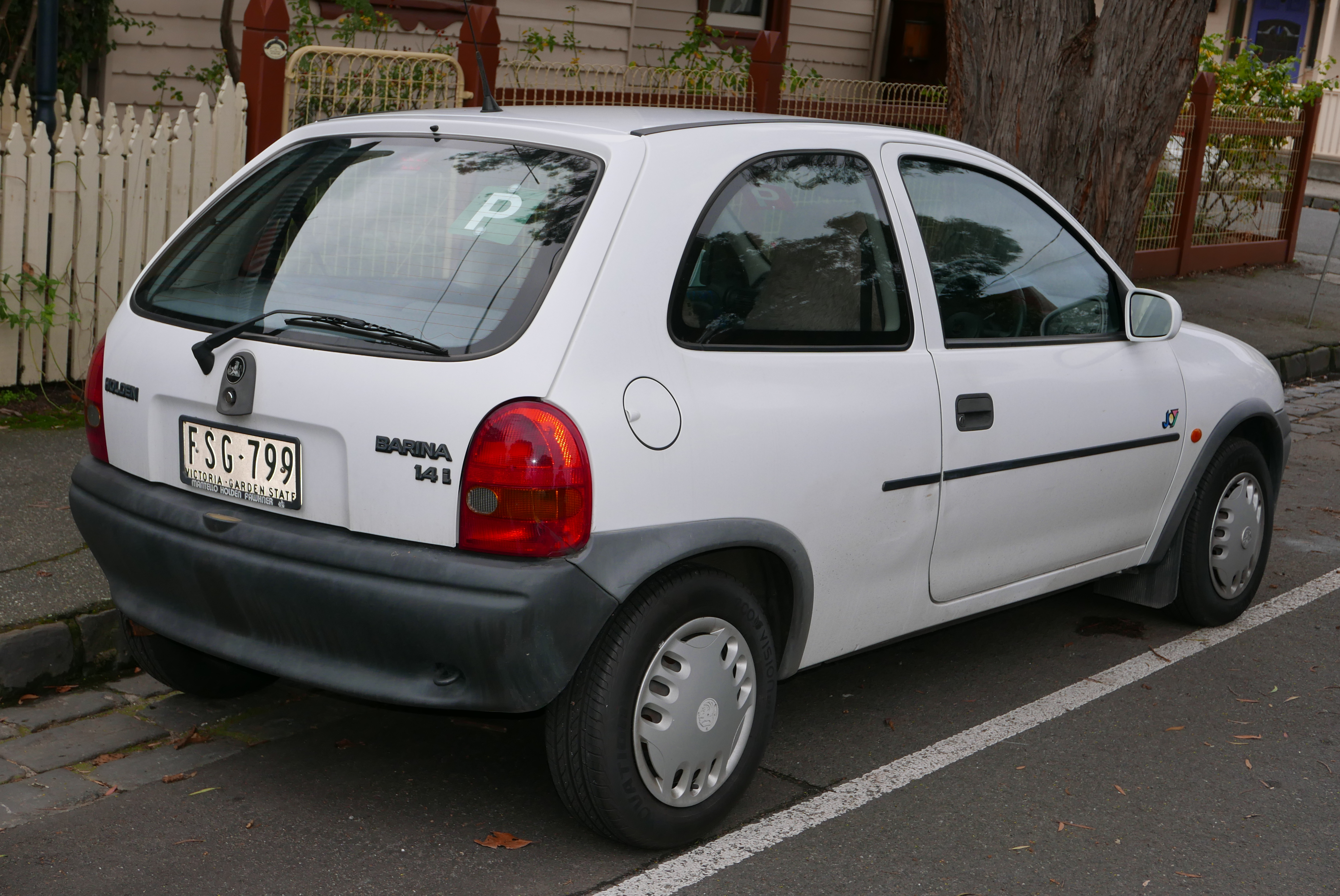 1994 Holden Barina (SB) Joy 3-door hatchback. Note the missing Holden badge on the rear hubcap, revealing the original Vauxhall badge. Photographed in Fitzroy North, Victoria, Australia. Vehicle registration enquiry results Jurisdiction Victoria Registration FSG799 Chassis code VSX000073R4295162 Engine code C14NZ19200698 Compliance date 1994-07 Year of manufacture 1994